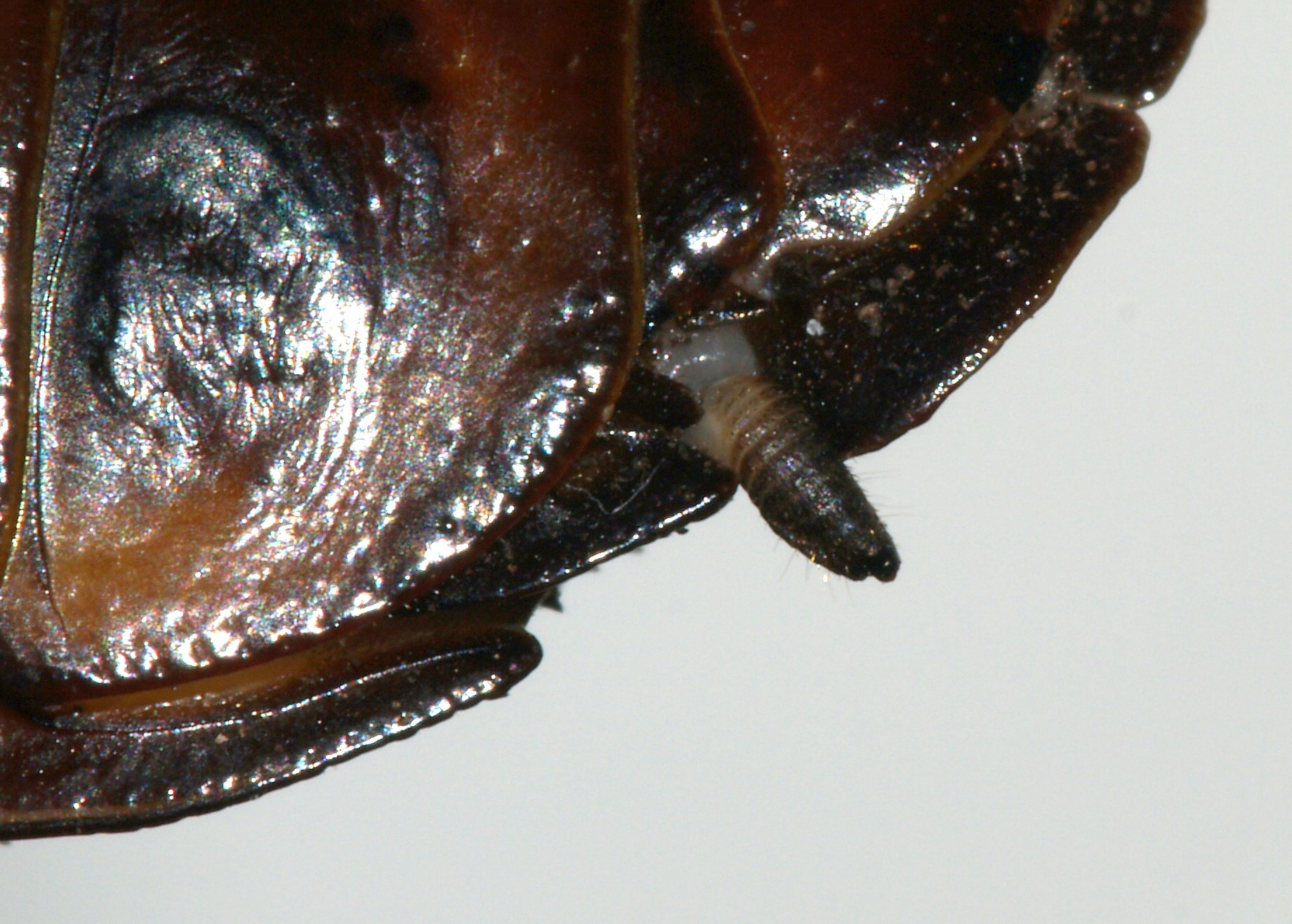 Gromphadorhina portentosa right cercus. From Cologne Zoo, Germany.